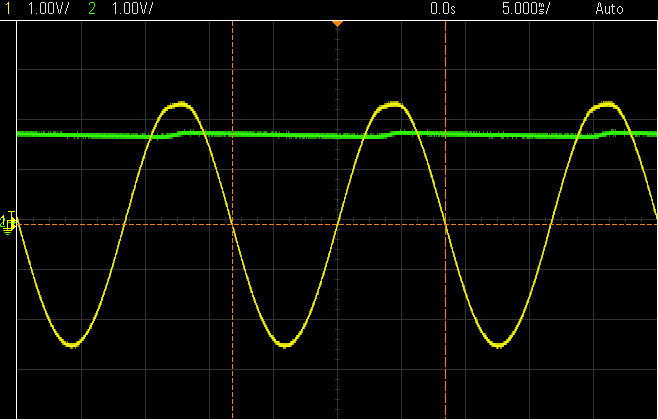 This is an oscillogram of the voltages in a simple half-wave rectifier circuit with a smoothing capacitor. The circuit consisted of a diode, a 33 µF capacitor and a 10 kΩ resistor with a signal generator as input. The input signal (yellow) is a 5V sinusoidal signal at 60 Hz. The output signal (green) is the rectified DC output. Note the small 60 Hz ripple in the DC signal. This image is a crop from an Agilent Technologies digital oscilloscope screenshot.